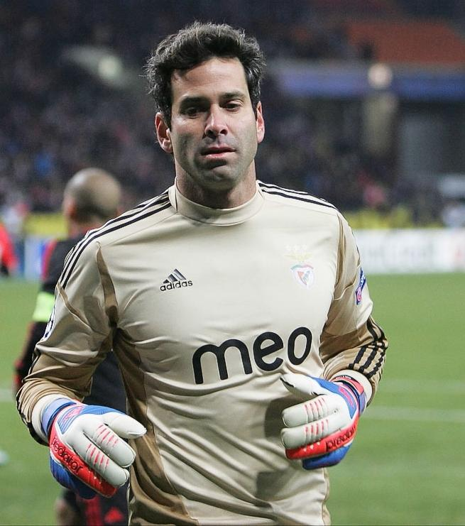 Moraes playing for Benfica against FC Spartak Moscow in an UEFA Champions League game in Moscow.